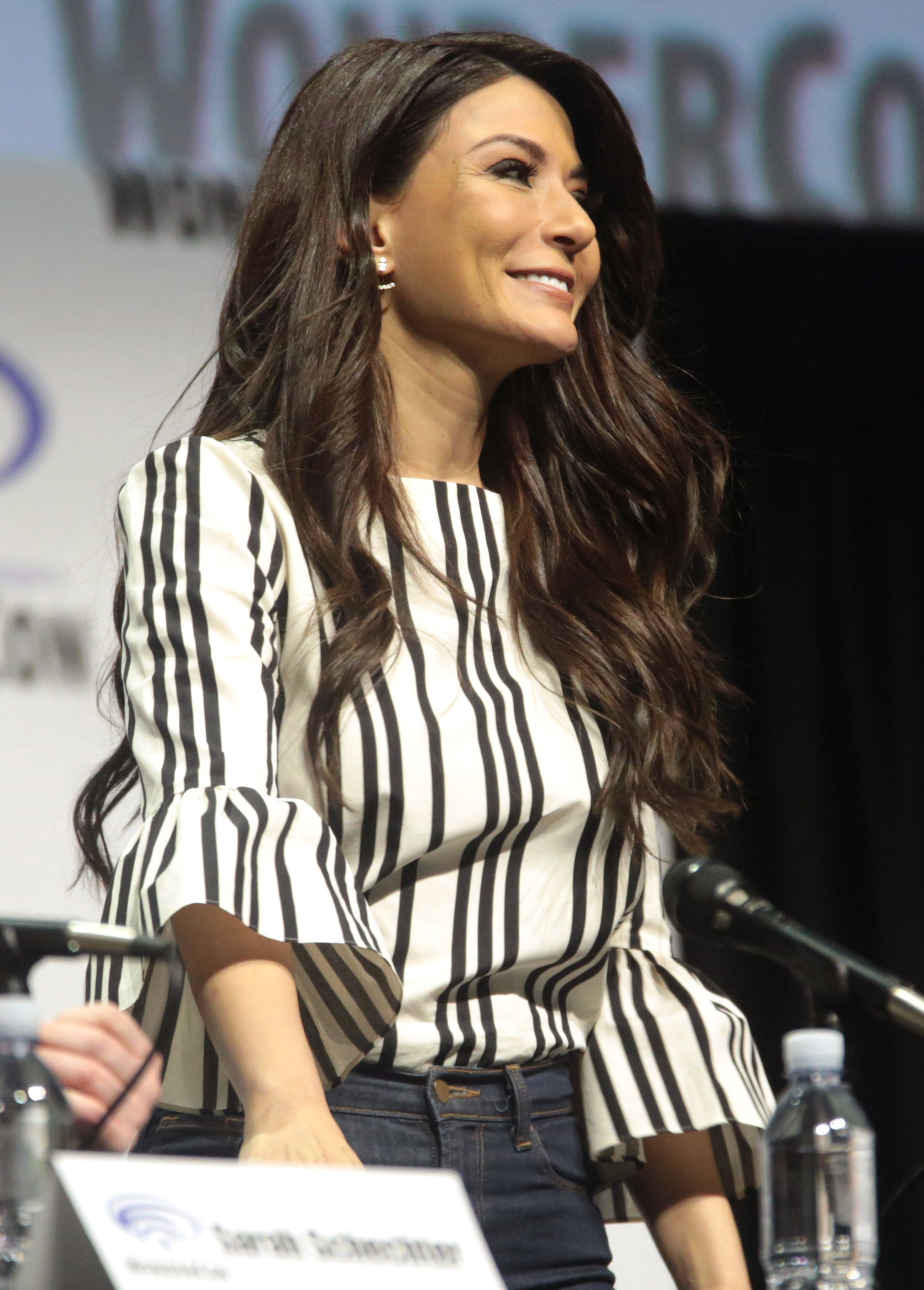 Marisol Nichols speaking at the 2017 WonderCon in Anaheim, California.